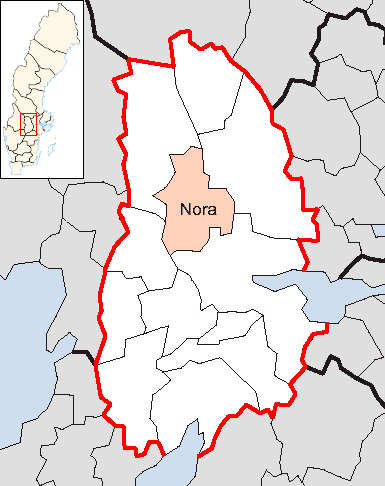 Nora Municipality in Örebro County Designd by me, based on Image:Örebro County.png